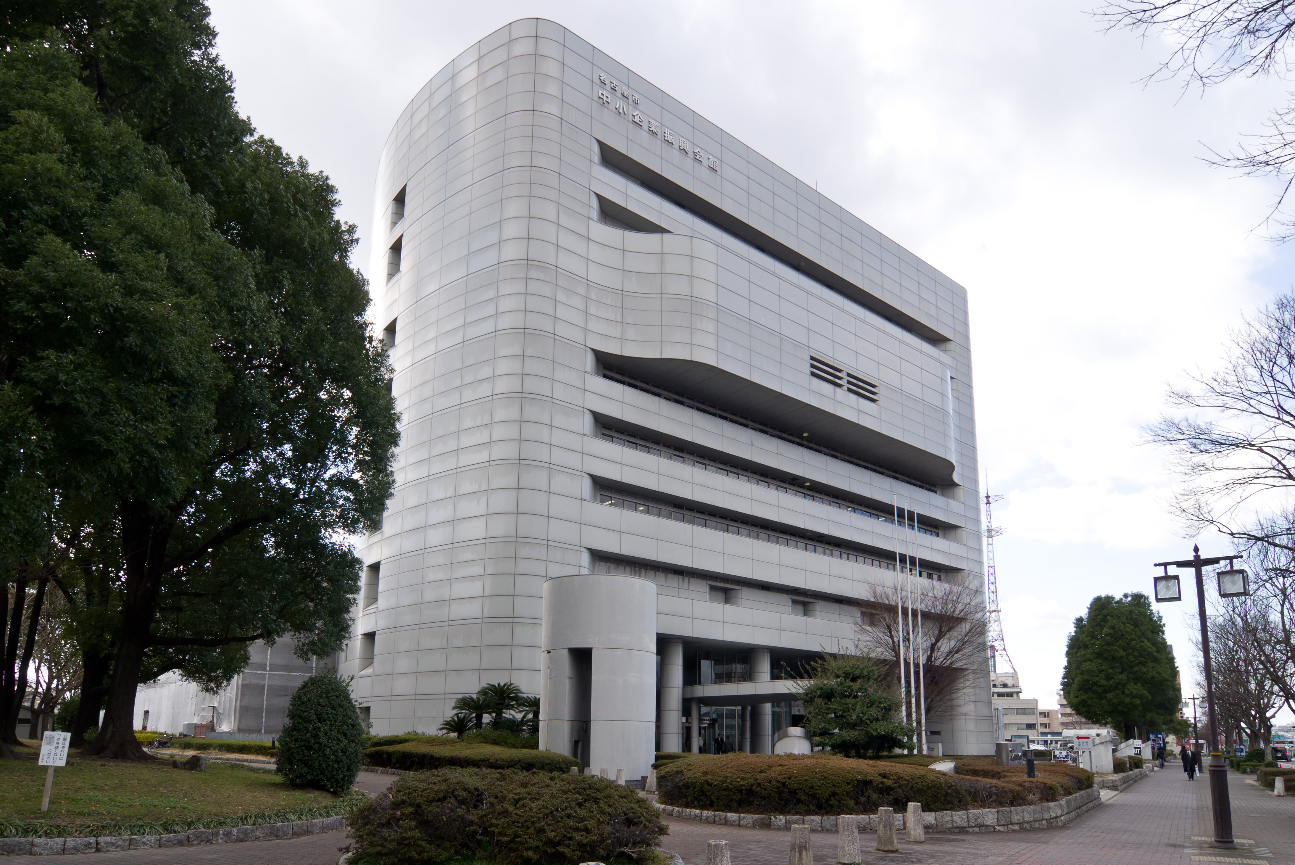 Nagoya Trade and Industry Center "Fukiage Hall" in Chikusa-ku, Nagoya, Aichi, Japan.